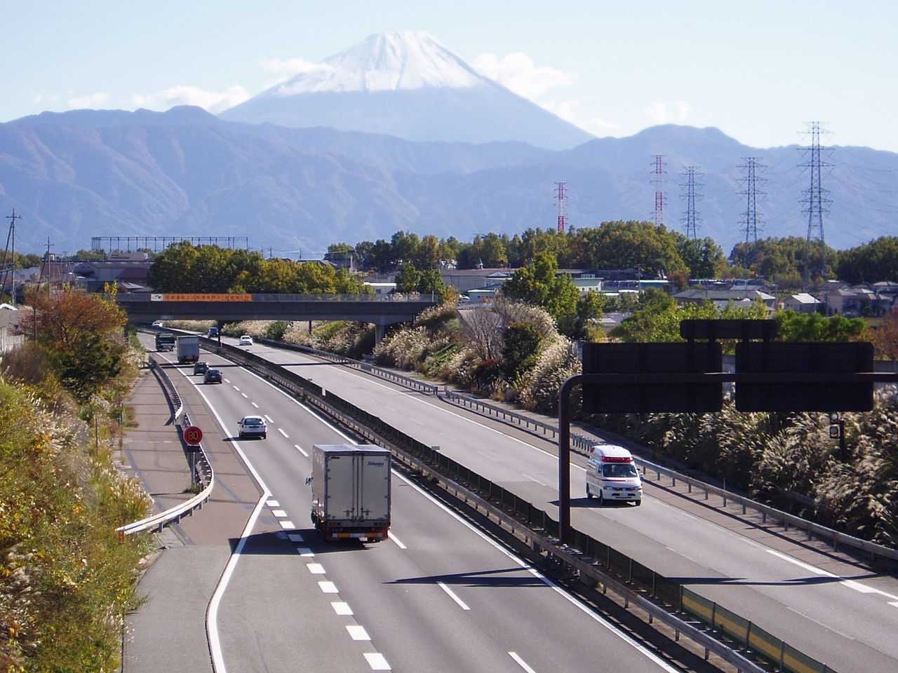 East place of Futaba Junction on Chuo Expressway.